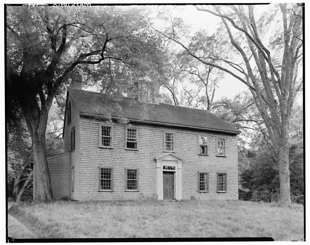 View of the exterior (from the northeast) of the Bryant-Cushing House, Cornet Stetson Road, Norwell, Plymouth County, Massachusetts. Historic American Buildings Survey, Library of Congress, Washington, D. C.